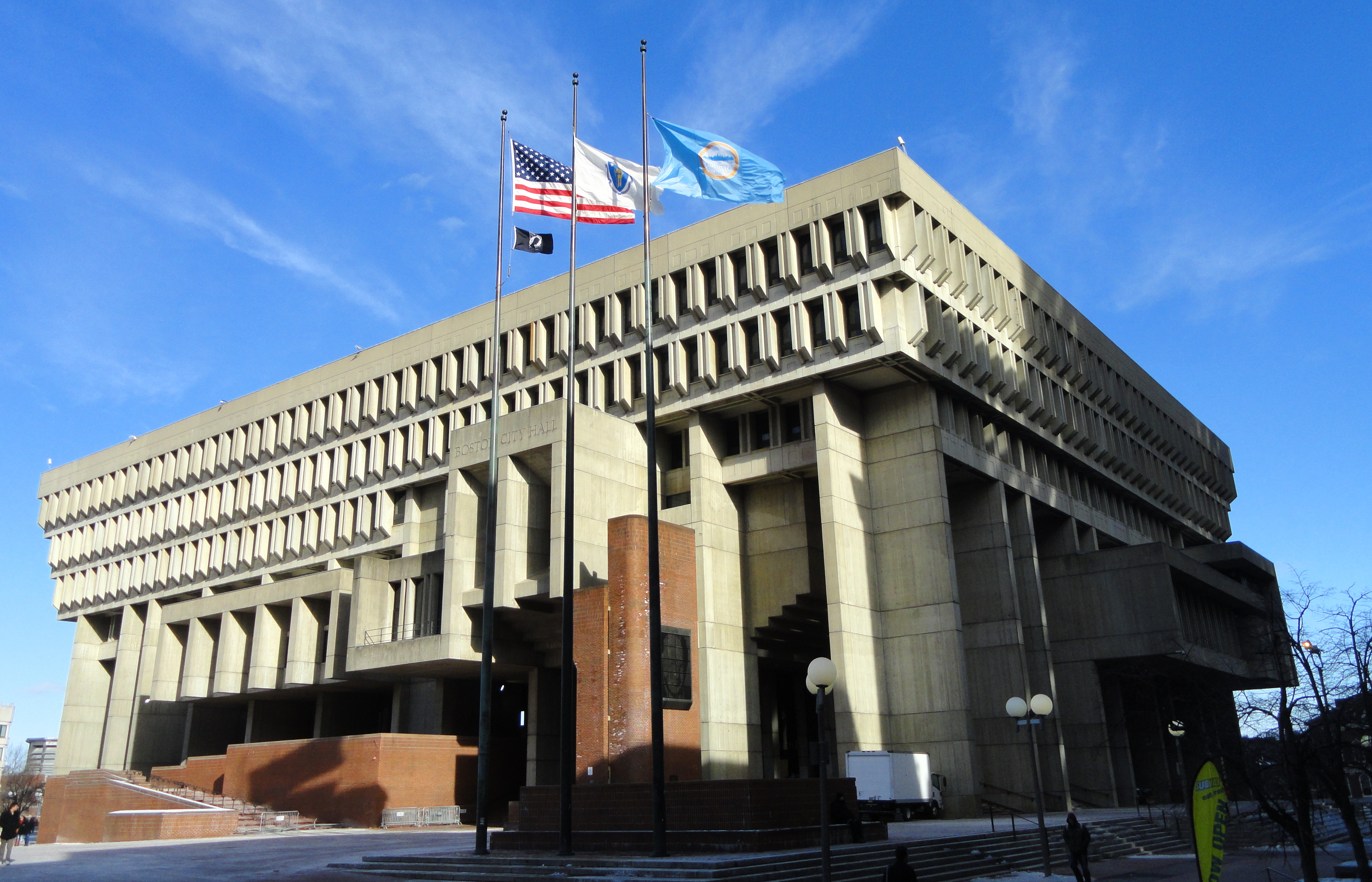 Boston City Hall, Boston, Massachusetts, USA.